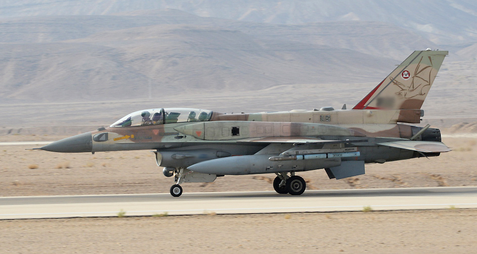 Israeli Air Force's Squadron 119 F-16I Sufa at Blue Flag 2015